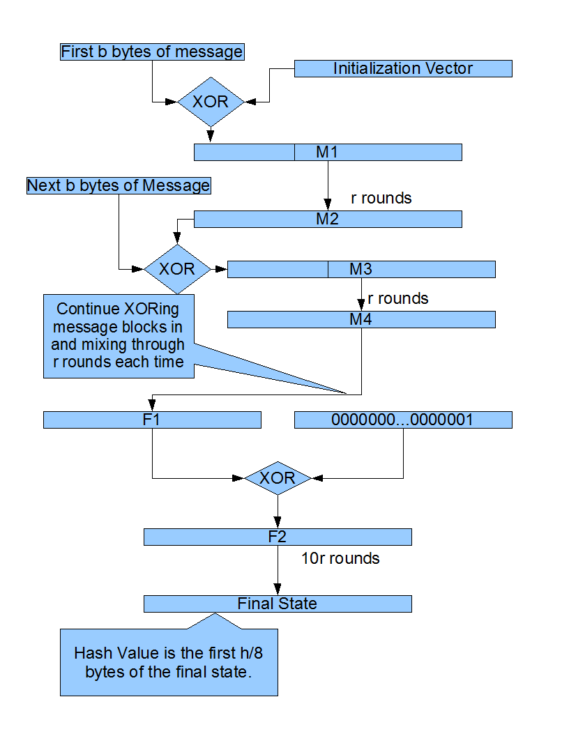 Diagram of how CubeHash works.